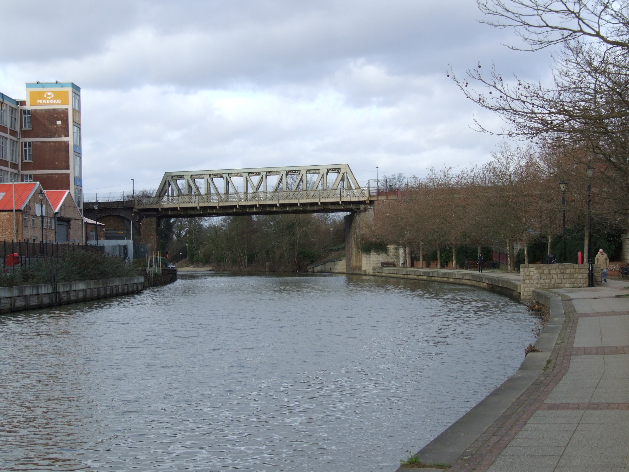 The River Medway flows through Maidstone in Kent. Fairmeadow and river looking downstream towards Maidstone East Station.